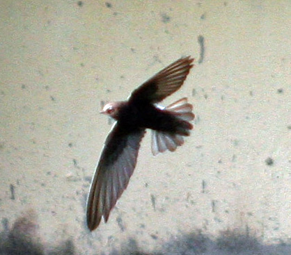 House swift Apus affinis in Kolkata, West Bengal, India.